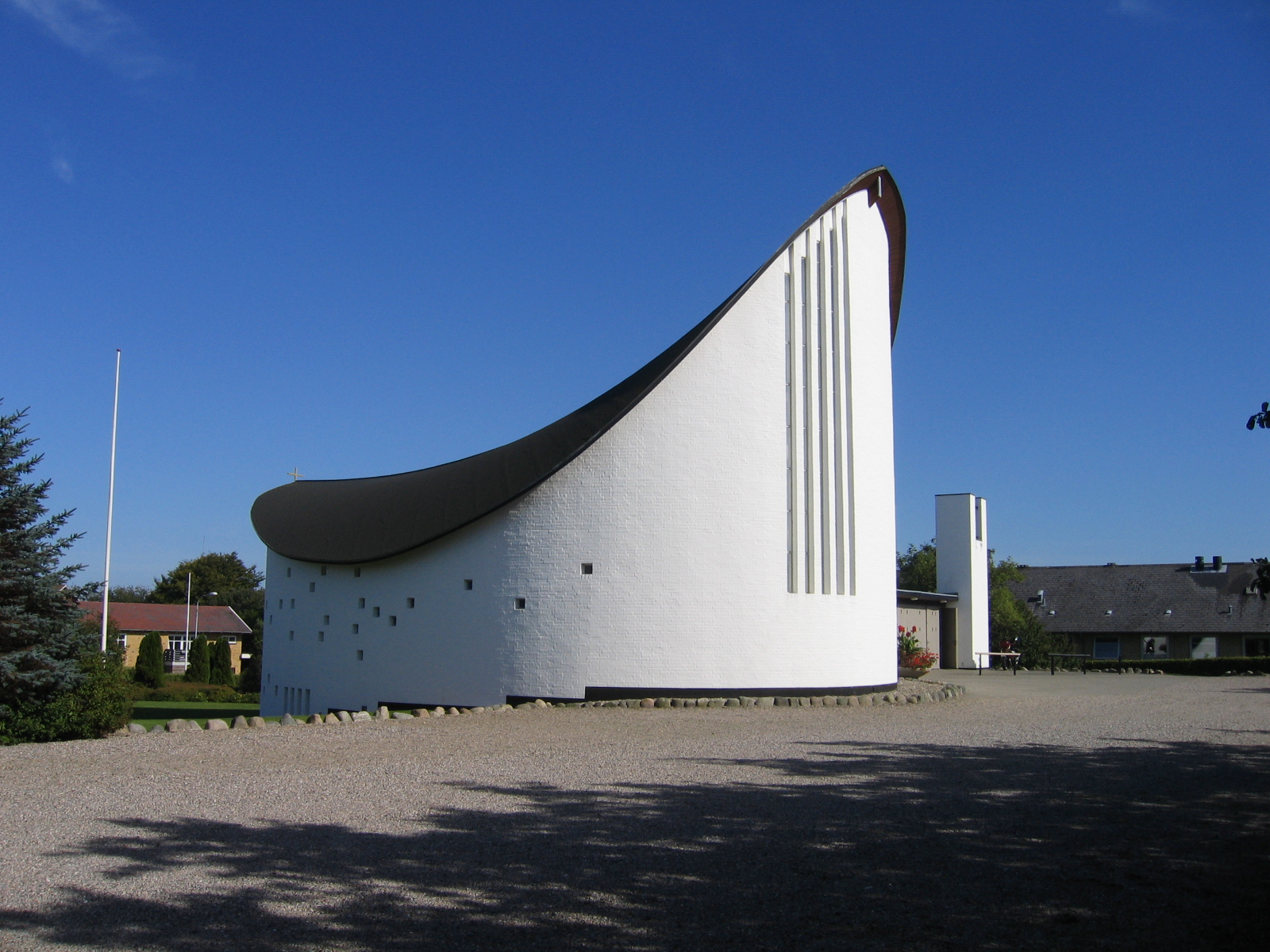 Church of Strandby, Diocese of Aalborg